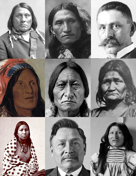 Collage of Lakota people from various public domain sources.